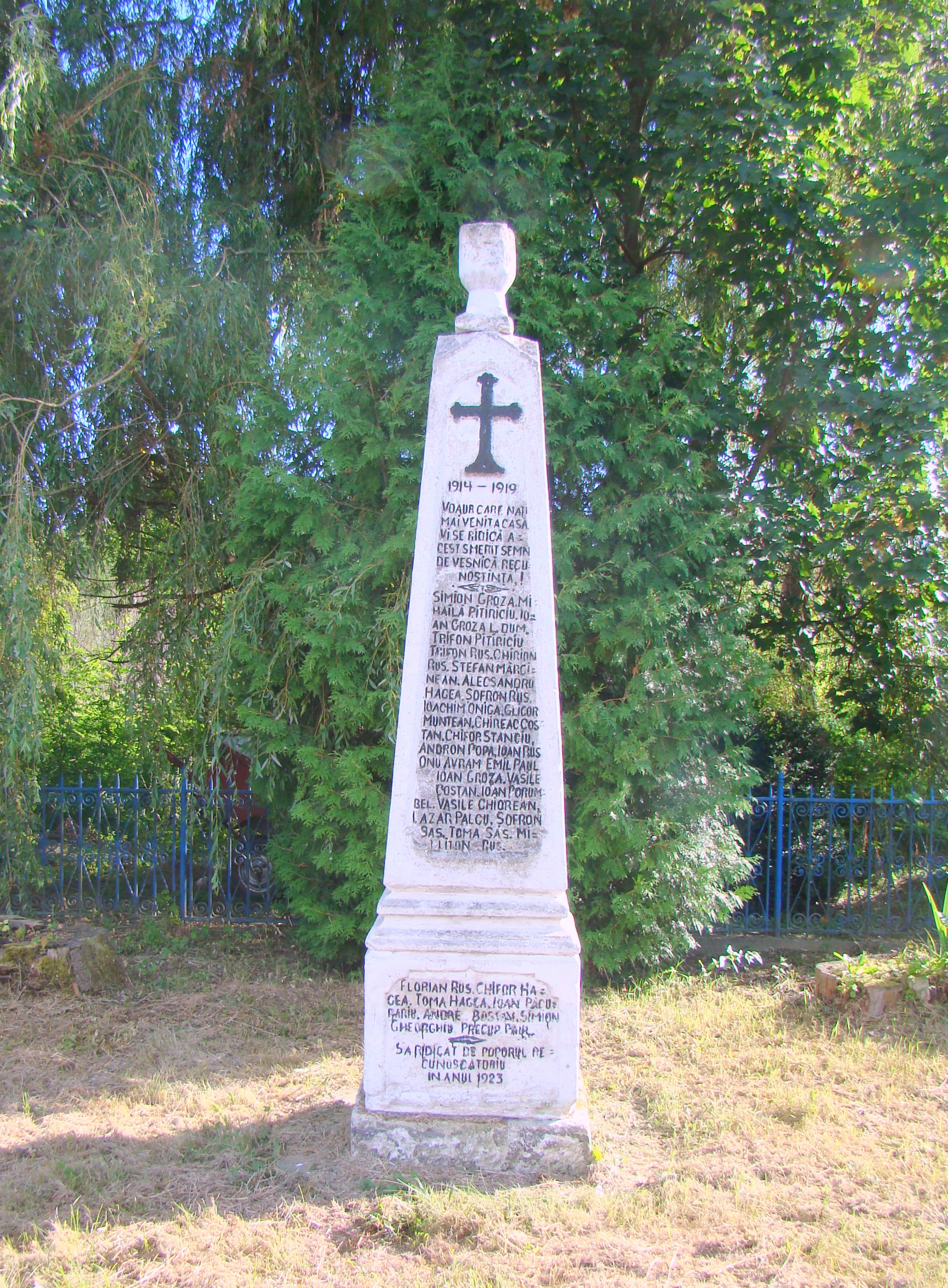 Măgina, Alba county, Romania